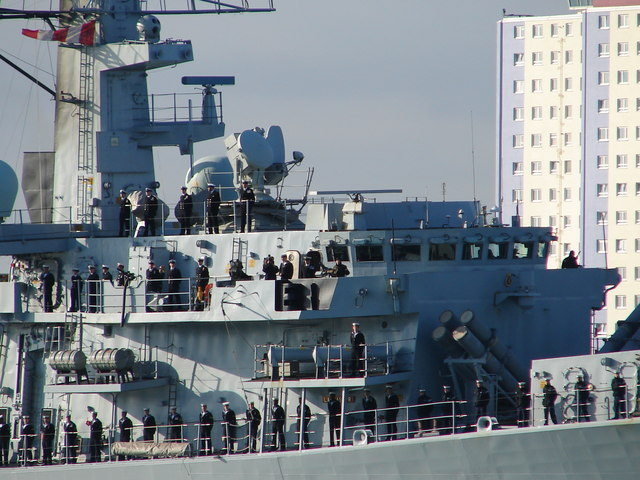 HMS Lancaster Returning from duty in The Gulf, HMS Lancaster and her crew are about to meet up with their loved ones after six months apart.